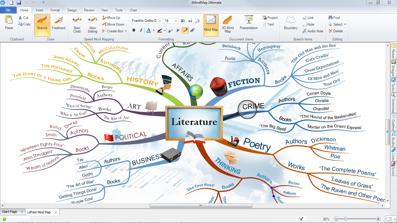 MindMap of Literature